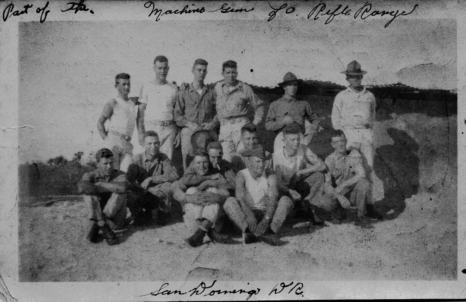 Names on the back of the photo are here: names. Also "Sunday Dec. 24, 1922, Part of the machinegun company, Rifle Range, San Domingo City, D. R.